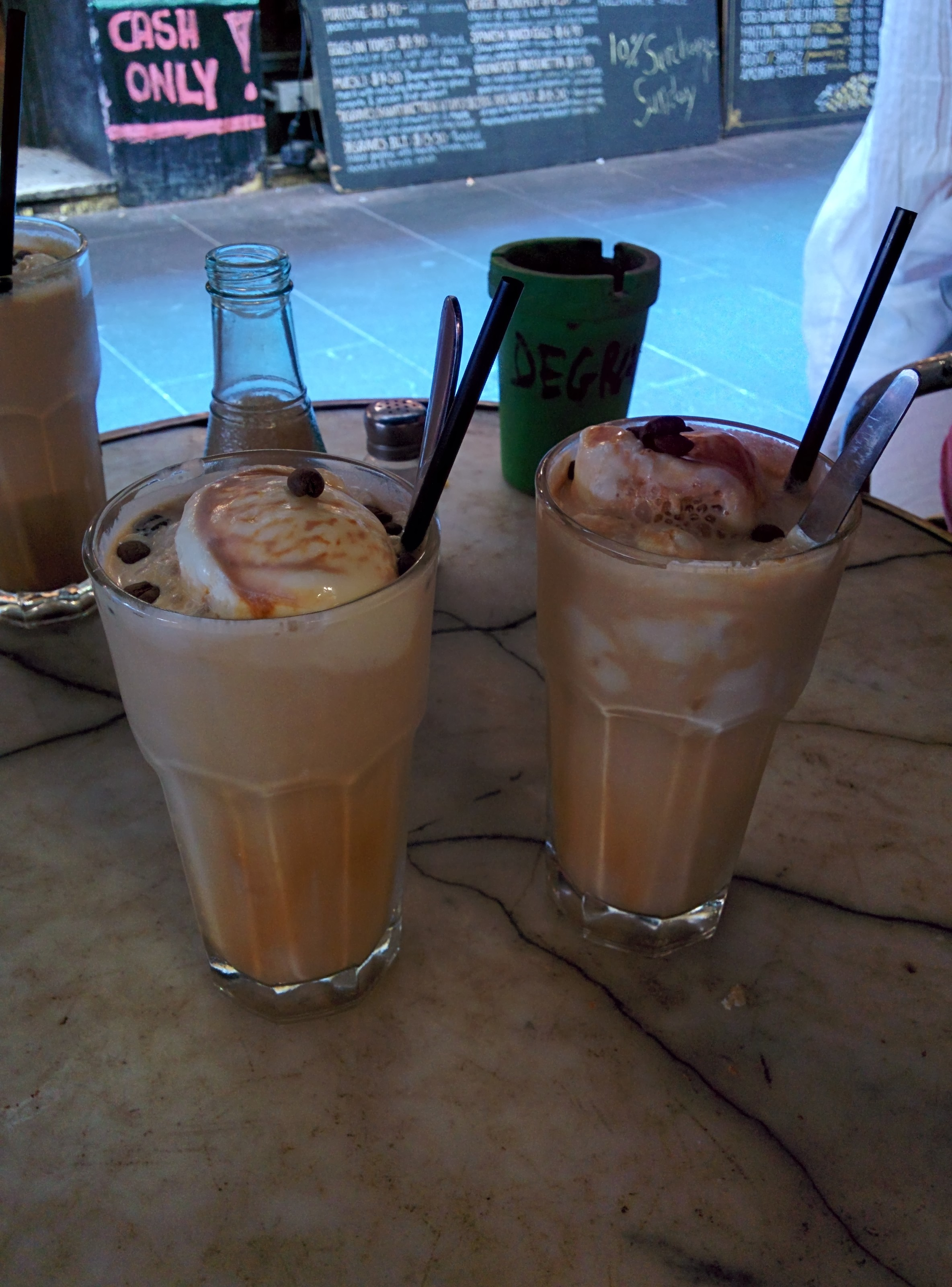 Australian iced coffee which typically contains vanilla ice cream.